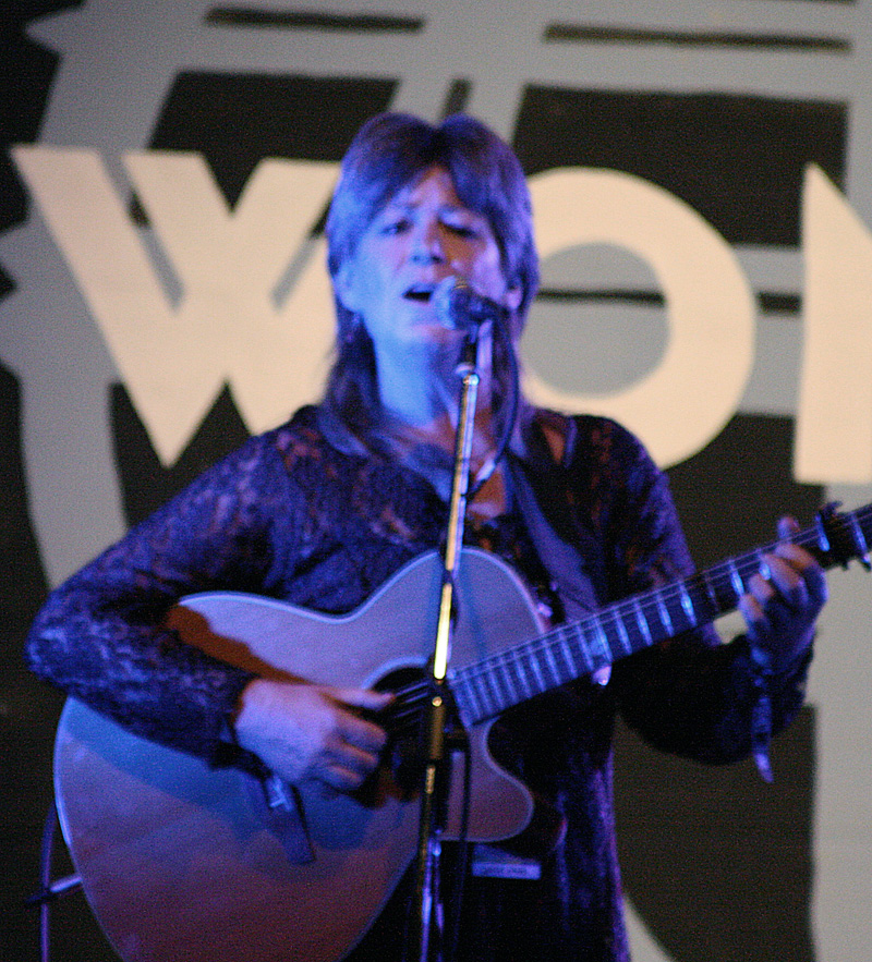 Singer-songwriter Shona Laing performing at WOMAD Taranaki in 2009